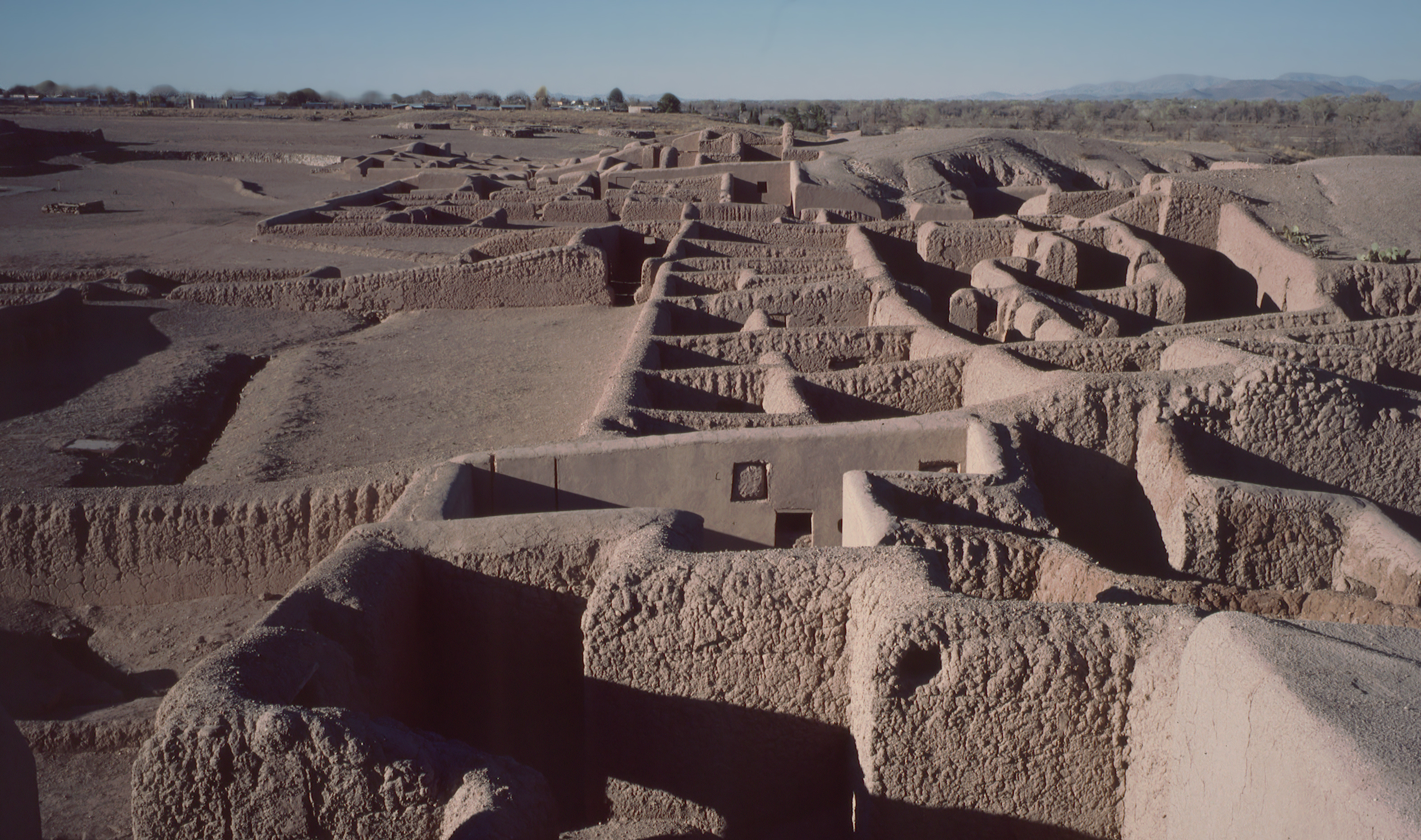 Paquime, Chihuahua, Mexico: Residential area.